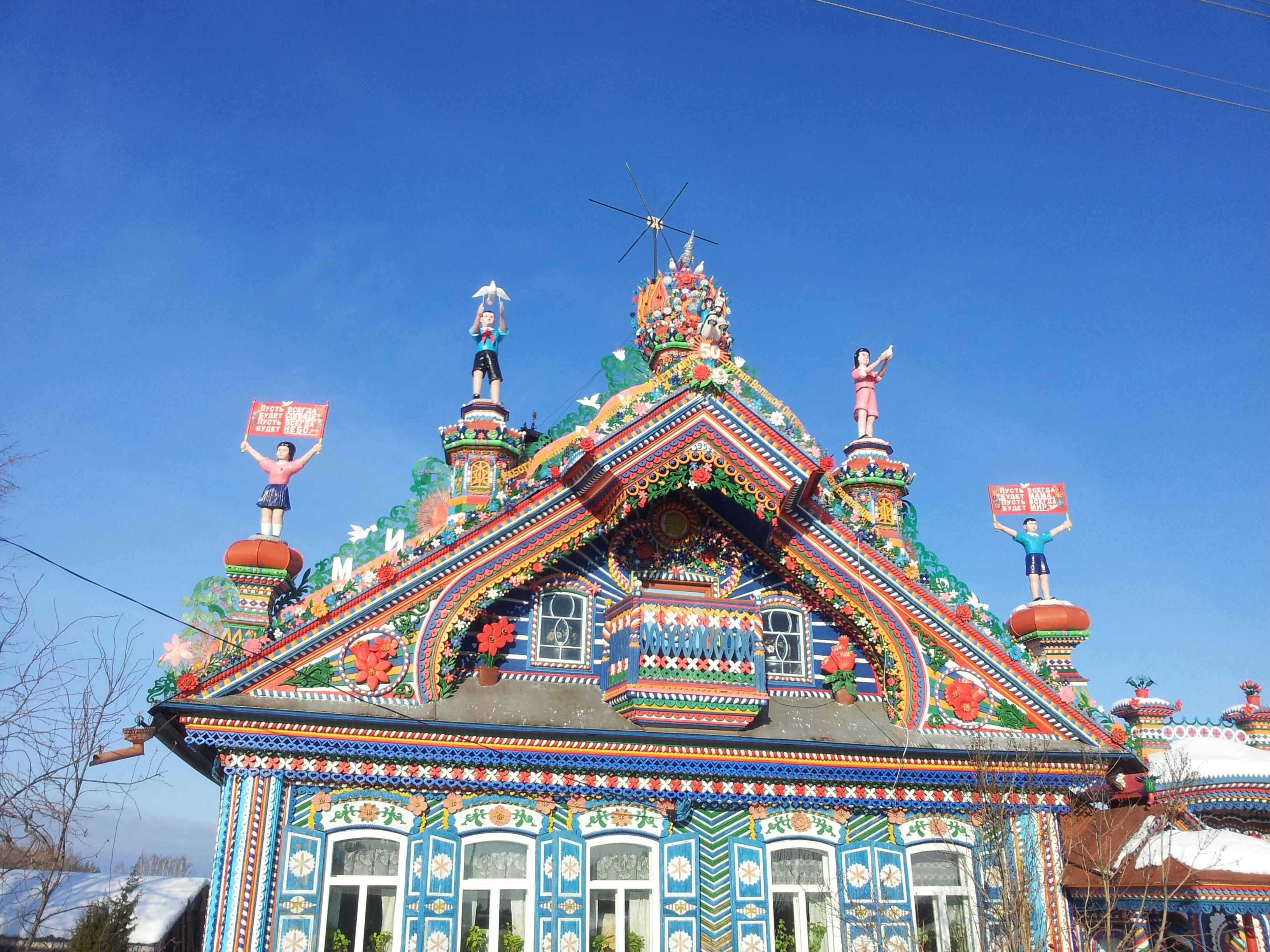 Gabel of Kirillov's house in the village of Kunara, Sverdlovsk region, Russia